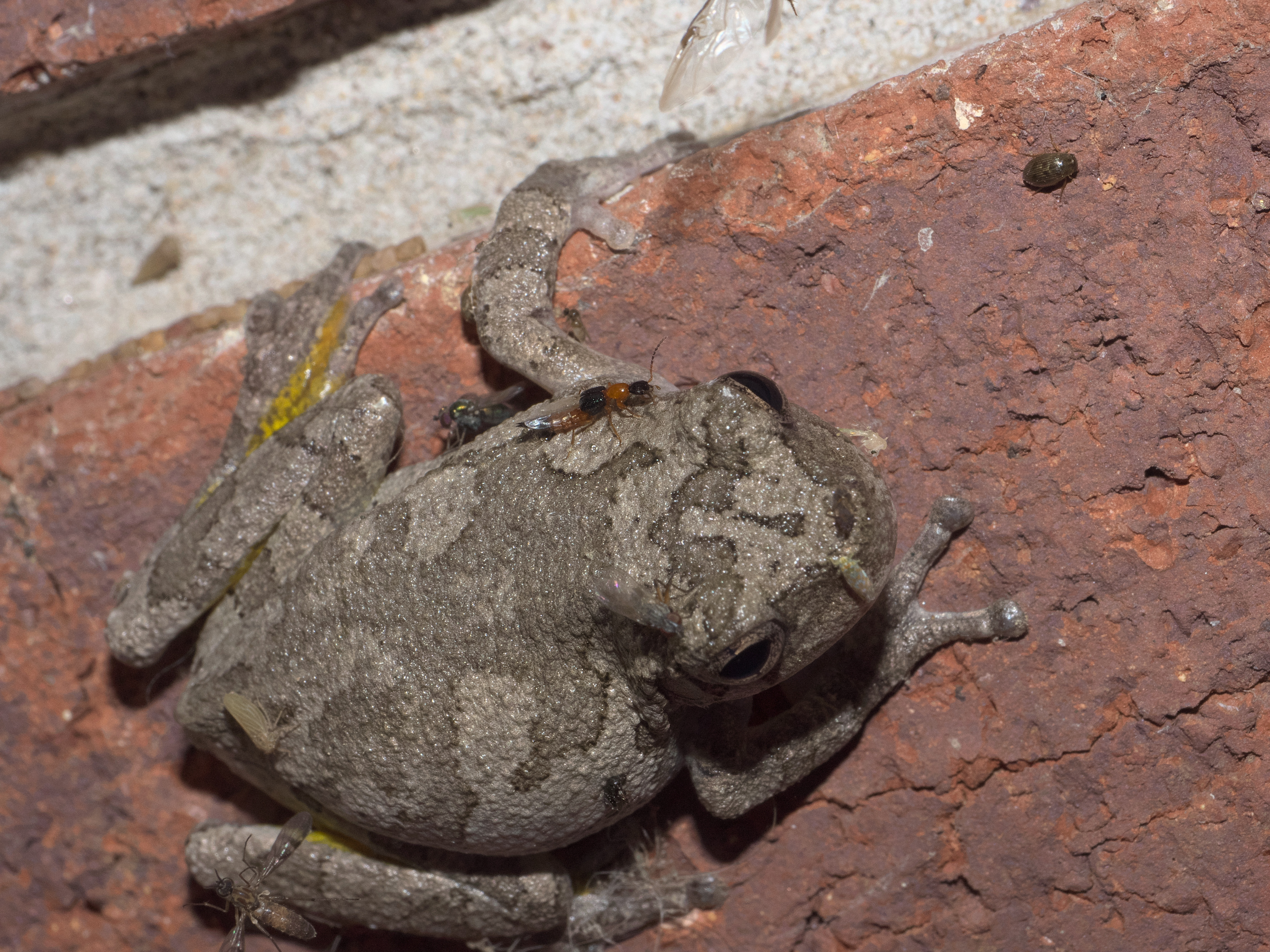 Neobisnius, Subfamily: Large Rove Beetles